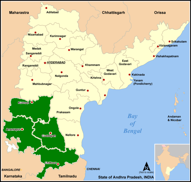 Rayalaseema map with region highlighted in green